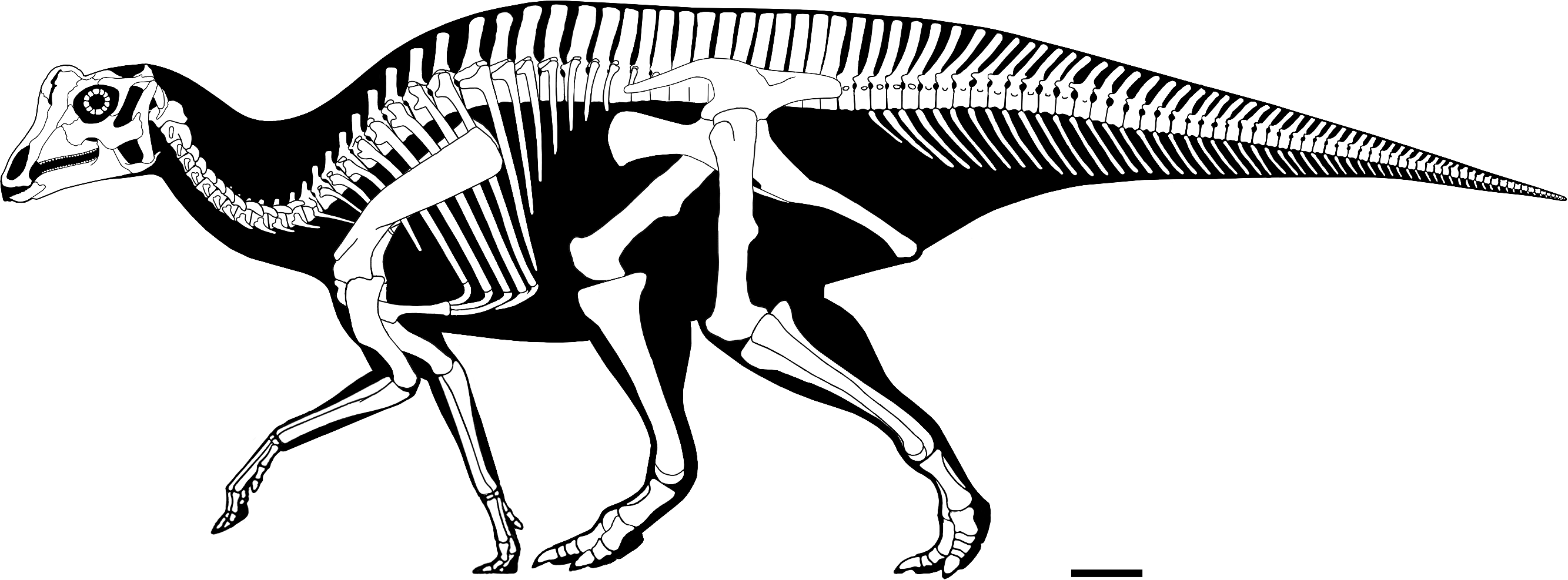 Reconstructed skeleton of juvenile Parasaurolophus sp., in left lateral view, based on RAM 14000. Missing elements are patterned after other lambeosaurines (particularly a juvenile Lambeosaurus sp., AMNH 5340). Scale bar equals 10 cm.